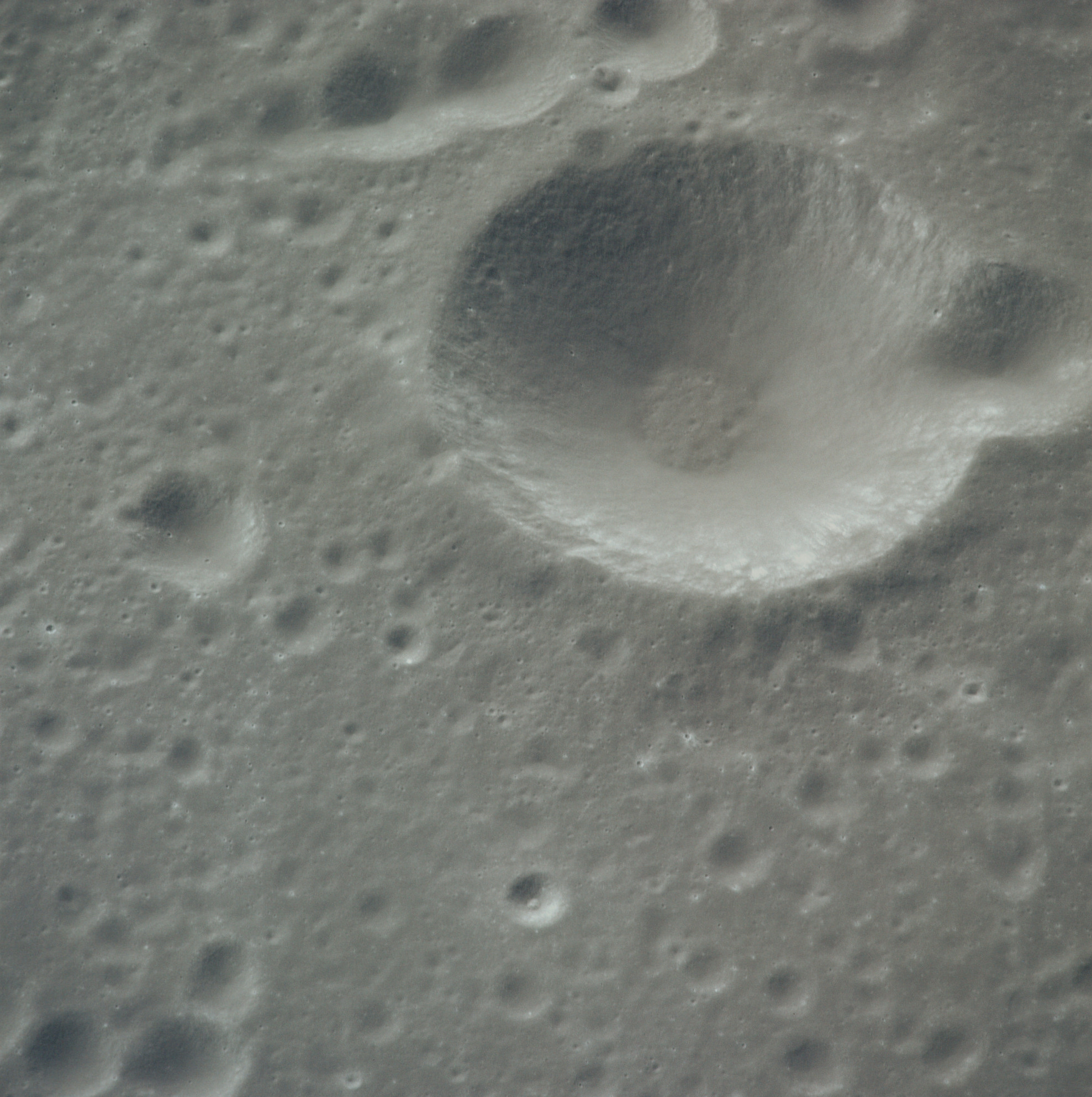 Orbital color-Hasselblad photograph of Richards (and part of Catena Mendeleev) - Apollo 16's AS16-118-18977